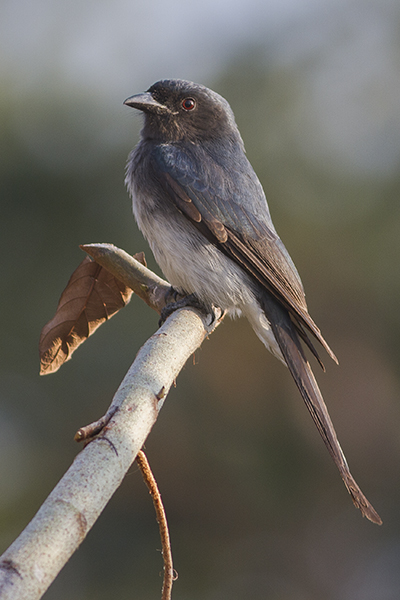 The specie White-bellied Drongo had been photographed at Ghatgarh, Nainital, Uttarakhand, India on 02.02.2015. during the birding trip of GoingWild.